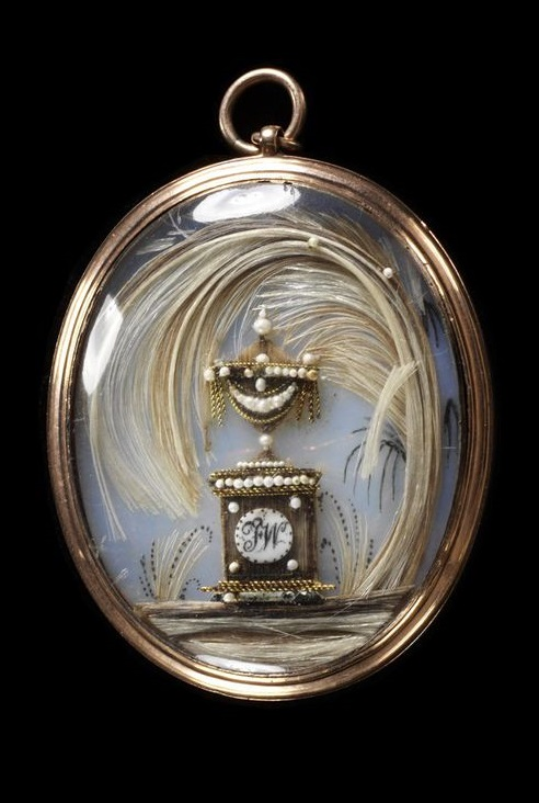 Locket Place of origin: England (made) Date: 1775-1800 (made) Artist/Maker: Unknown Materials and Techniques: Gold with a composition in hair, metal and seed pearls on opaline glass, watercolour